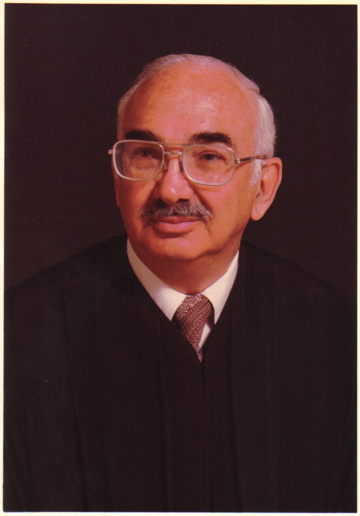 staff photo federal government U.S. Immigration and Naturalization Service 1976